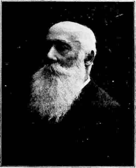 Jean Joseph Léon Farcot (1823 - 19 March 1908) was a French engineer. A prolific inventor, he was one of the pioneers of the servomechanism, where a feedback loop helps control a machine.